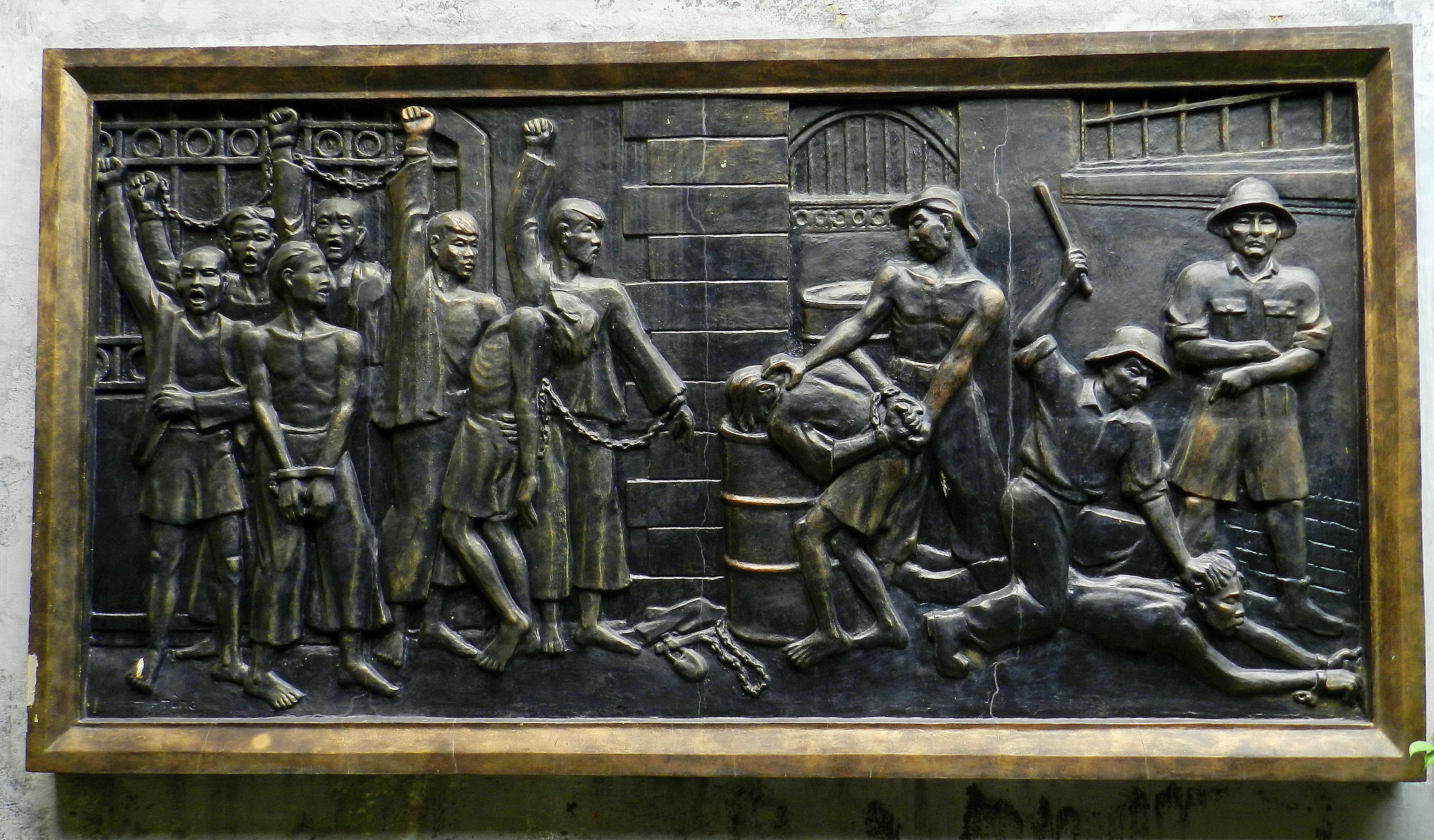 Bas-relief of the Maison centrale (Hanoi Hilton) showing the mistreatment of political prisoners.